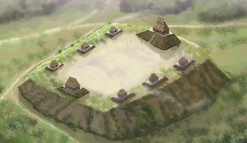 An artists conception of the Emerald Site, (22 AD 504), a Plaquemine culture mound site in Adams County, Mississippi inhabited from 1200 to 1700 CE.